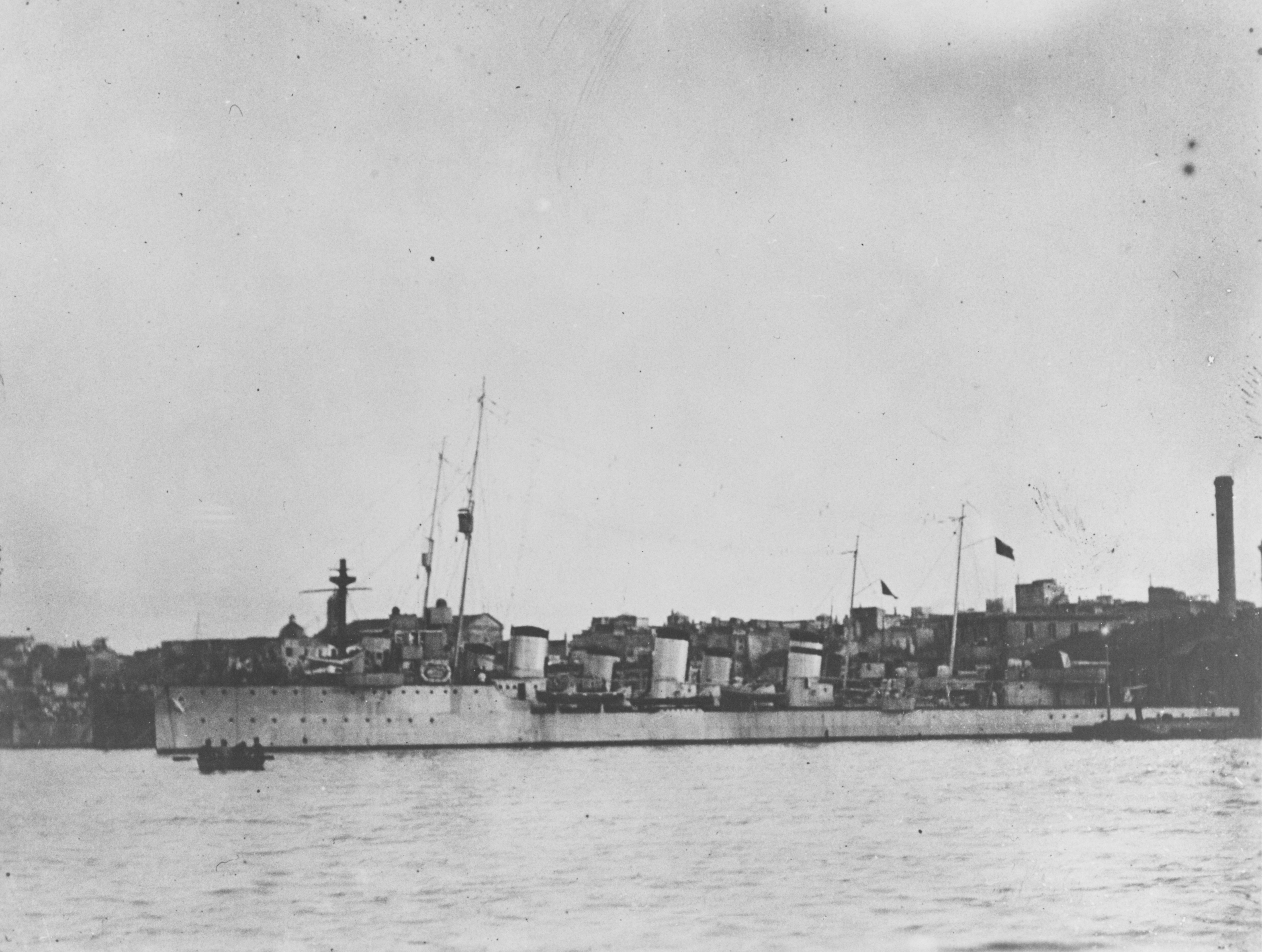 Italian scout cruiser Nibbio in port; her sister Aquila is behind her